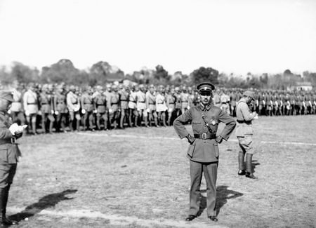 Chiang Kai-shek in a military parade for suppressing the People's Revolutionary Government of the Republic of China in Fujian, 1933